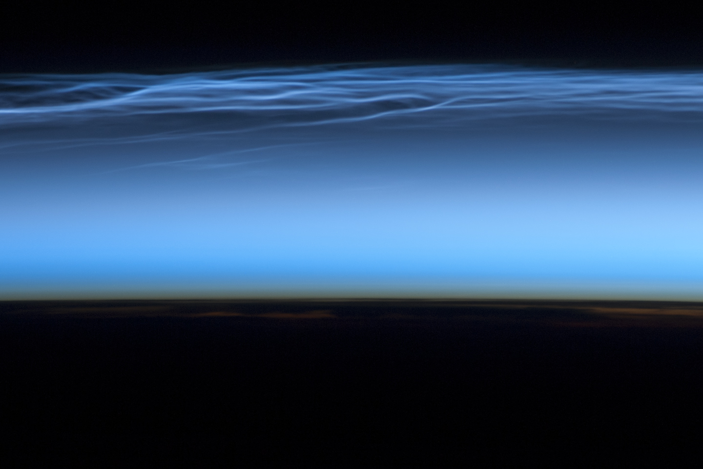 Noctilucent clouds - photo taken from International Space Station on June 13th, 2012.